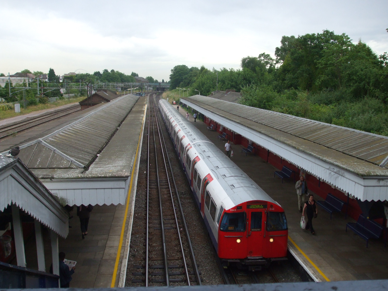 Kenton station. Looking south as a northbound Bakerloo line tube train calls.